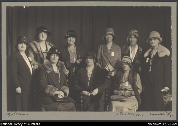 Catalogue record: nla.pic-vn5816503 Australian Federation of Women Voters, delegates to the 3rd Triennial Inter-state Conference held in Melbourne, May 1930 [picture] / Dickinson Monteath.